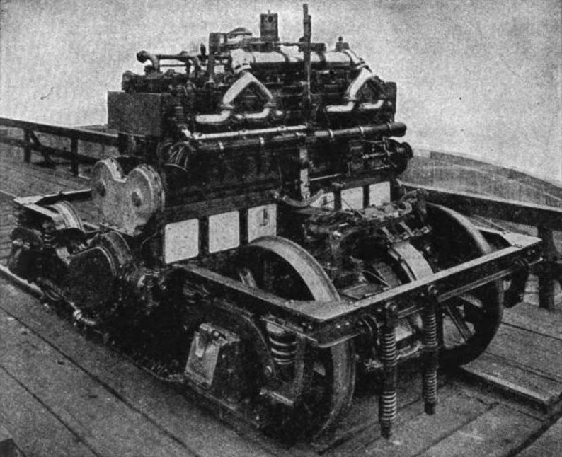 Power truck of a McKeen rail motor car